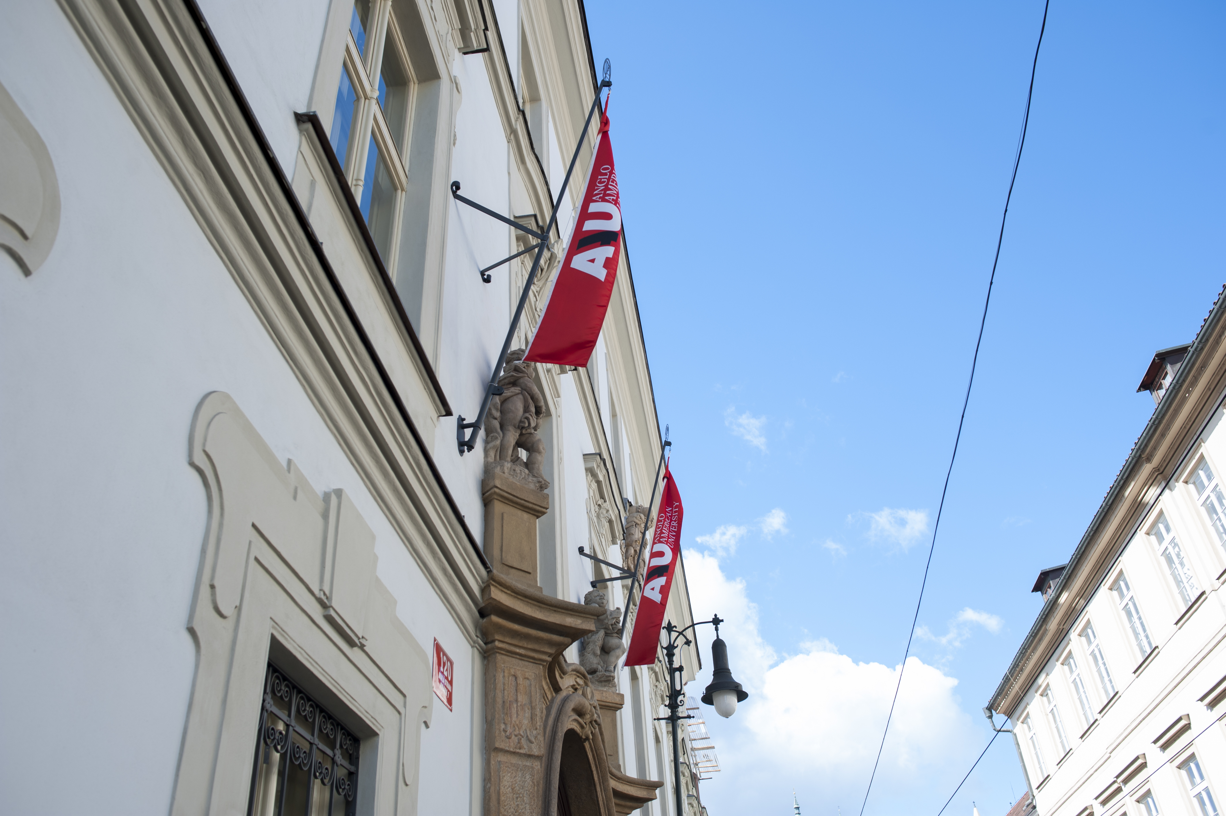 flags of AAU